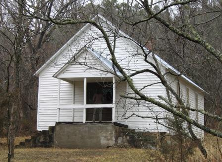 Lower Parker School House, Dent County, Missouri, USA in the Ozark National Scenic Riverways